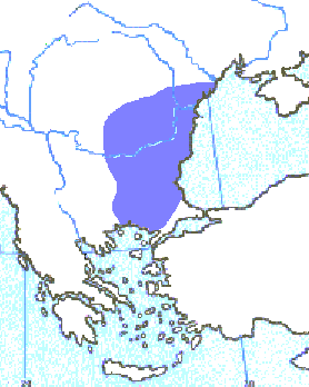 Area ot the Gumelnitsa-Kocaermen-Karanovo pottery culture (Chalcolithic age)